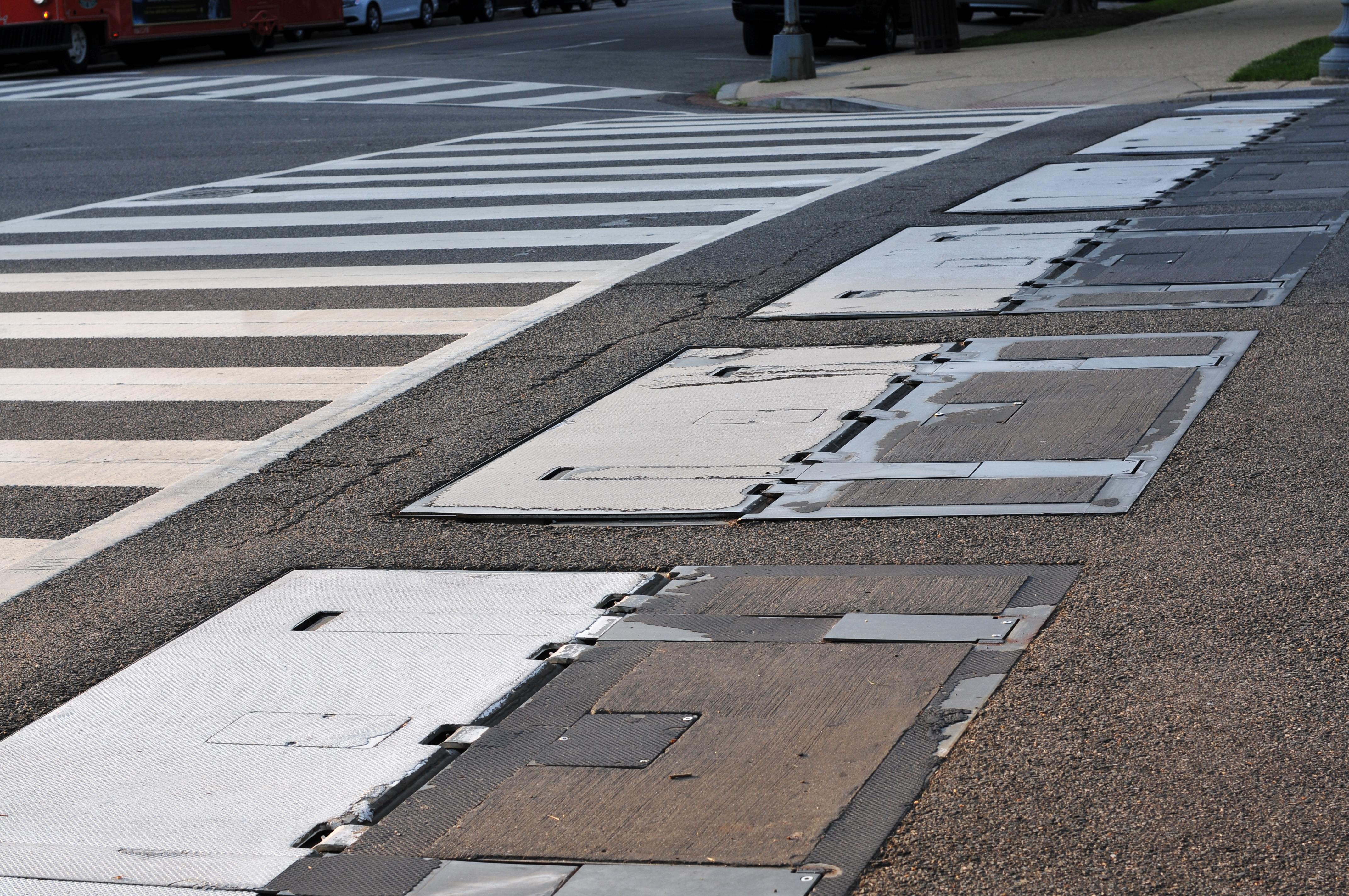 Barrier board near United States Capitol in Washington D.C. The making of this work was supported by Wikimedia Austria. For other files made with the support of Wikimedia Austria, please see the category Supported by Wikimedia Österreich.